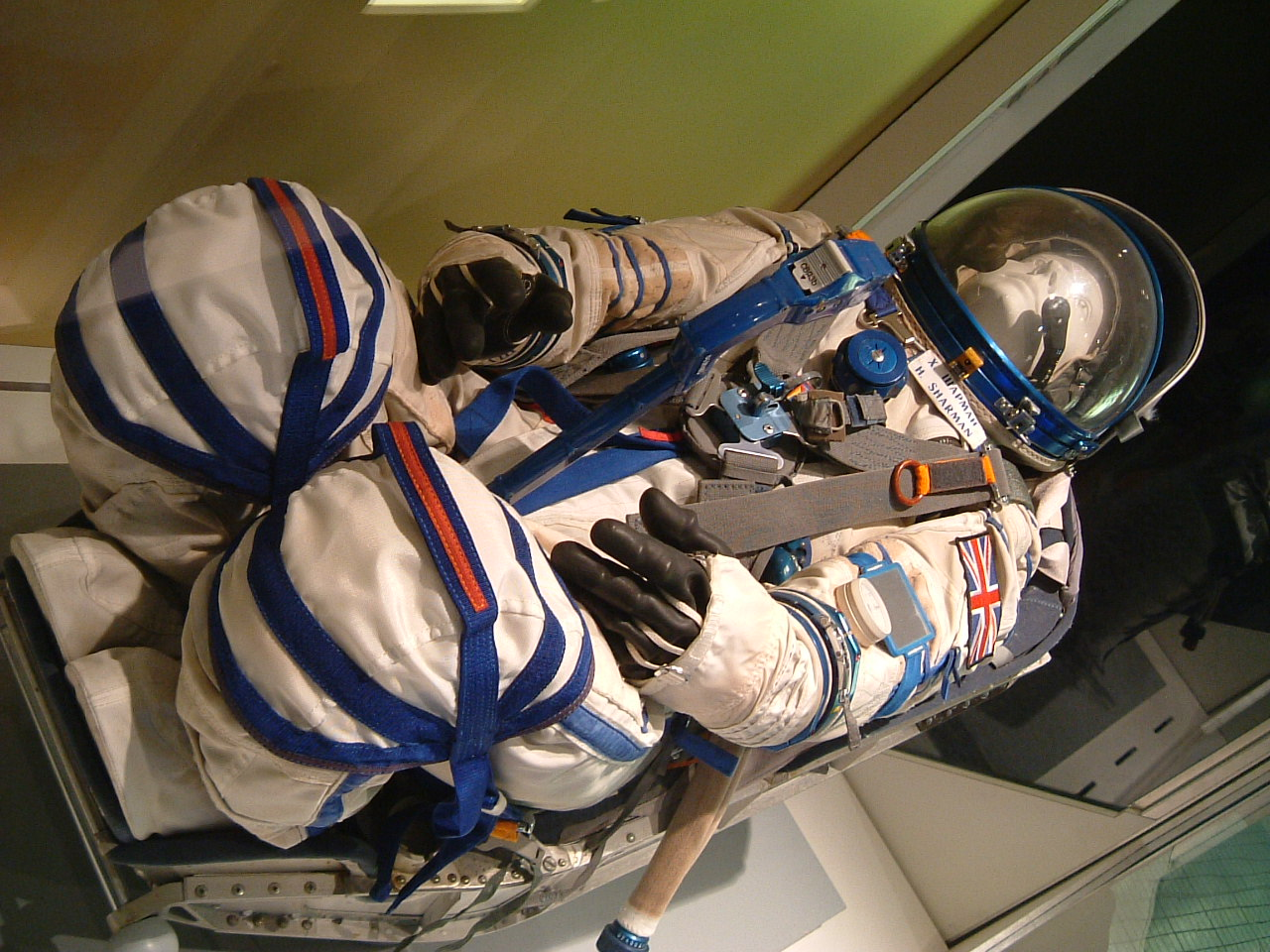 Helen Sharman was the first Briton into space. This suit is the same type she wore during her flight to the MIR Space Station. This specific suit is a training suit modified to appear the same as Helen's actual suit. The Kazbek couch, the Suit and dummy are sat on, is the actual launch couch Helen used to get to space and back.